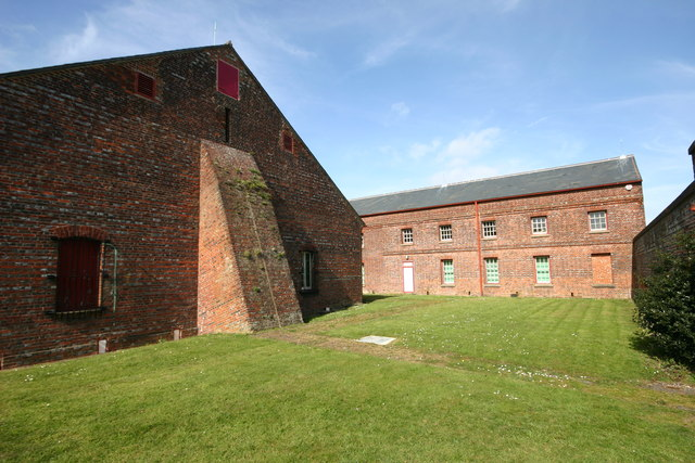 Former gunpowder magazines, Priddy's Hard, Gosport